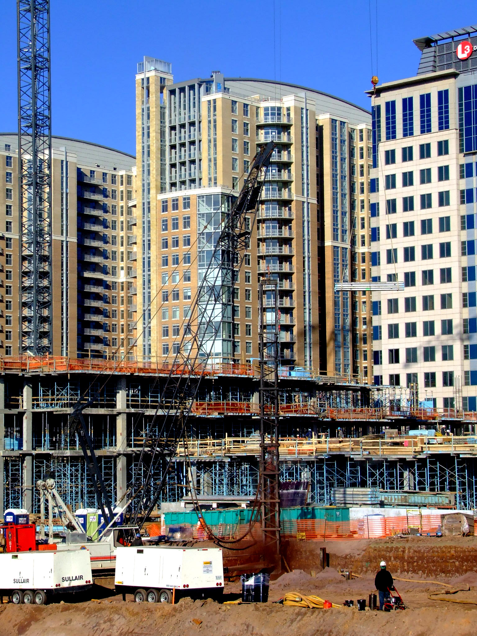 Joshua Davis Photography [1] Copyright 2006 Joshua Davis, some rights reserved.